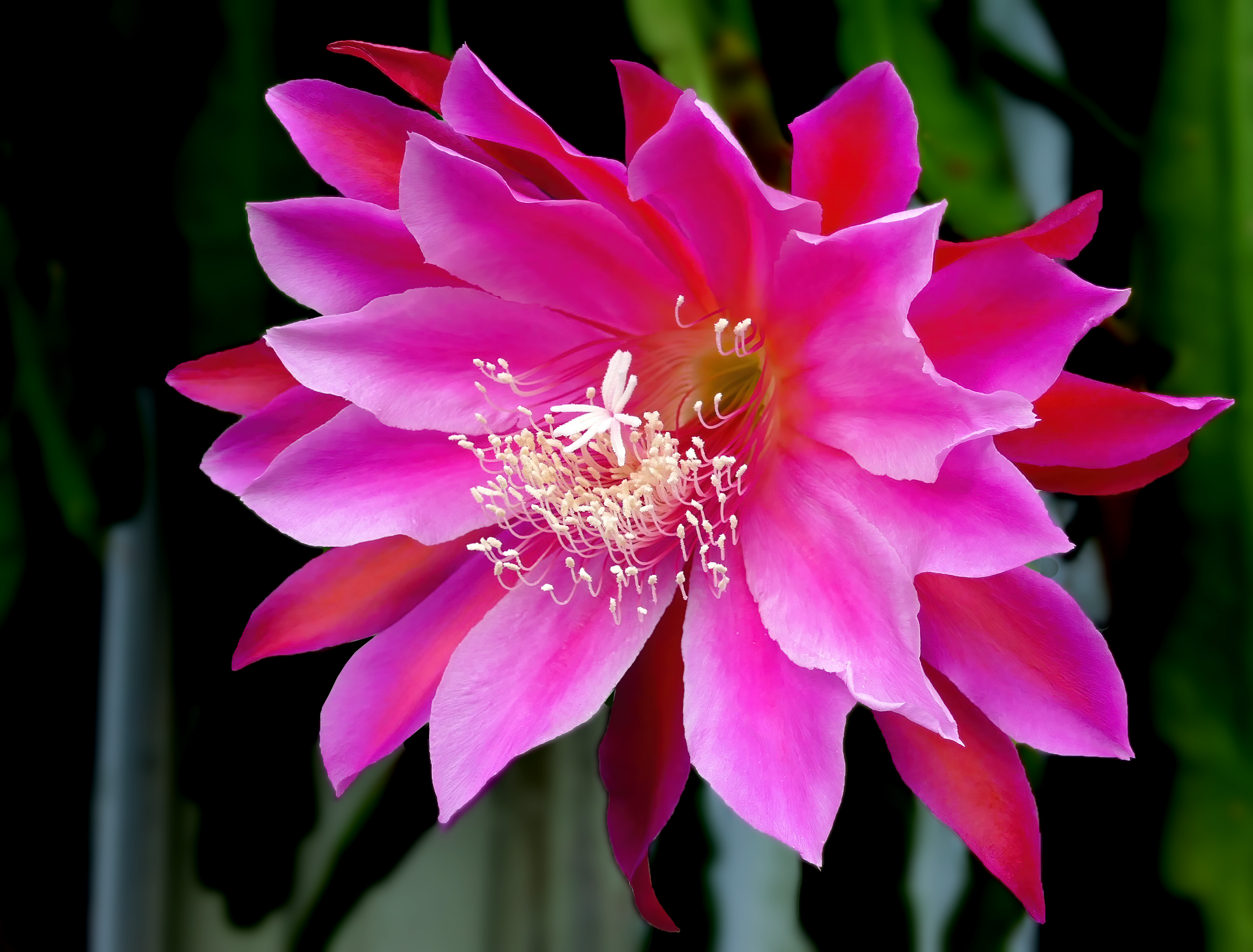 Orchid cactus -- Epiphyllum hybrid 'Unforgettable'